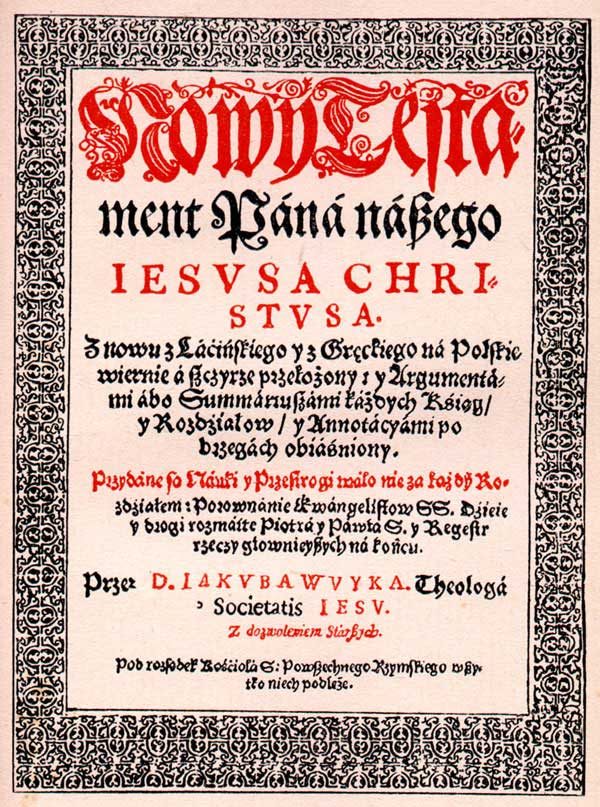 Title page of the 1593 New Testament translation by Wujek. See also here and here.